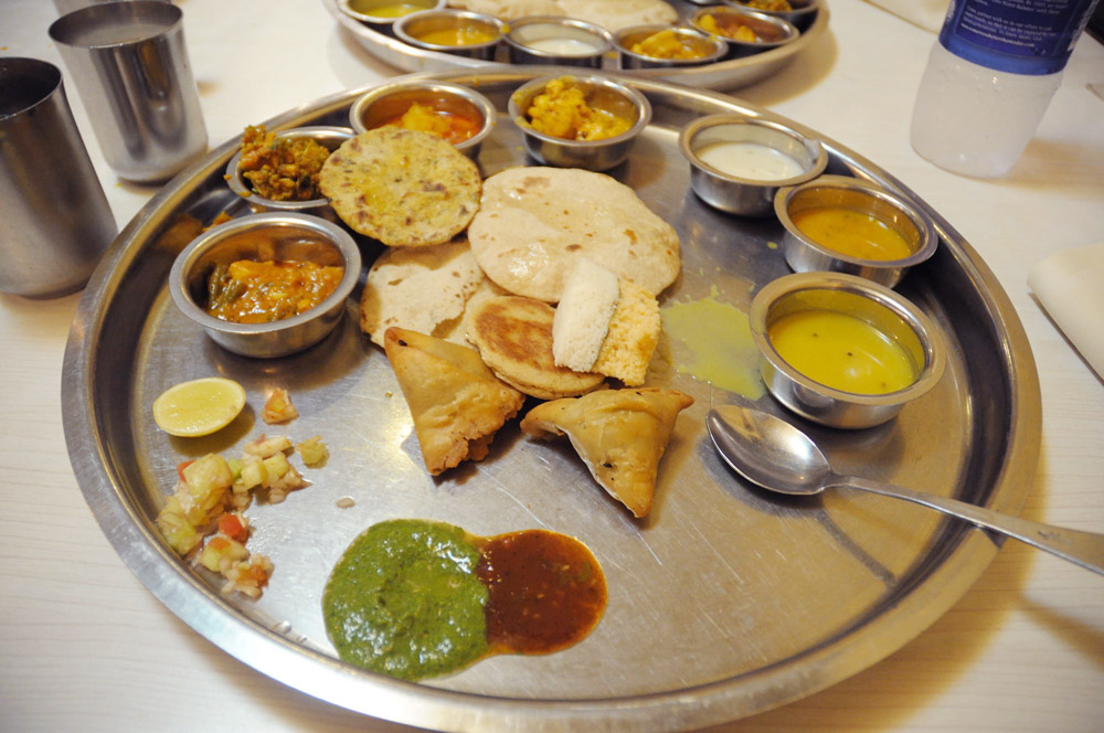 Vegetarian "All-you-can-eat" Thali in New Delhi, India. July 2010